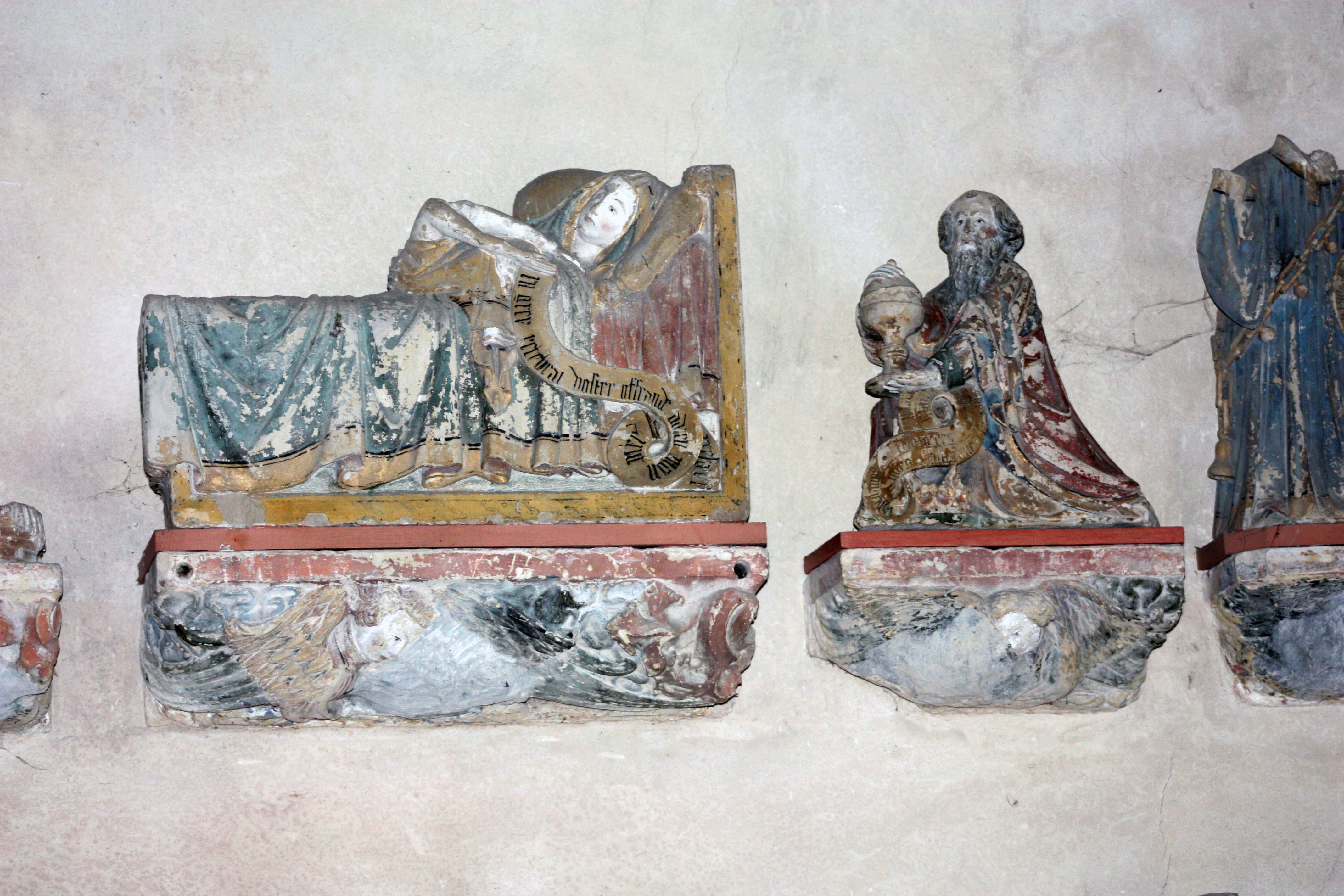 The Virgin layered and a Wise Man presenting gold at the Infant Jesus. Items recovered from a Nativity of the 15th century.